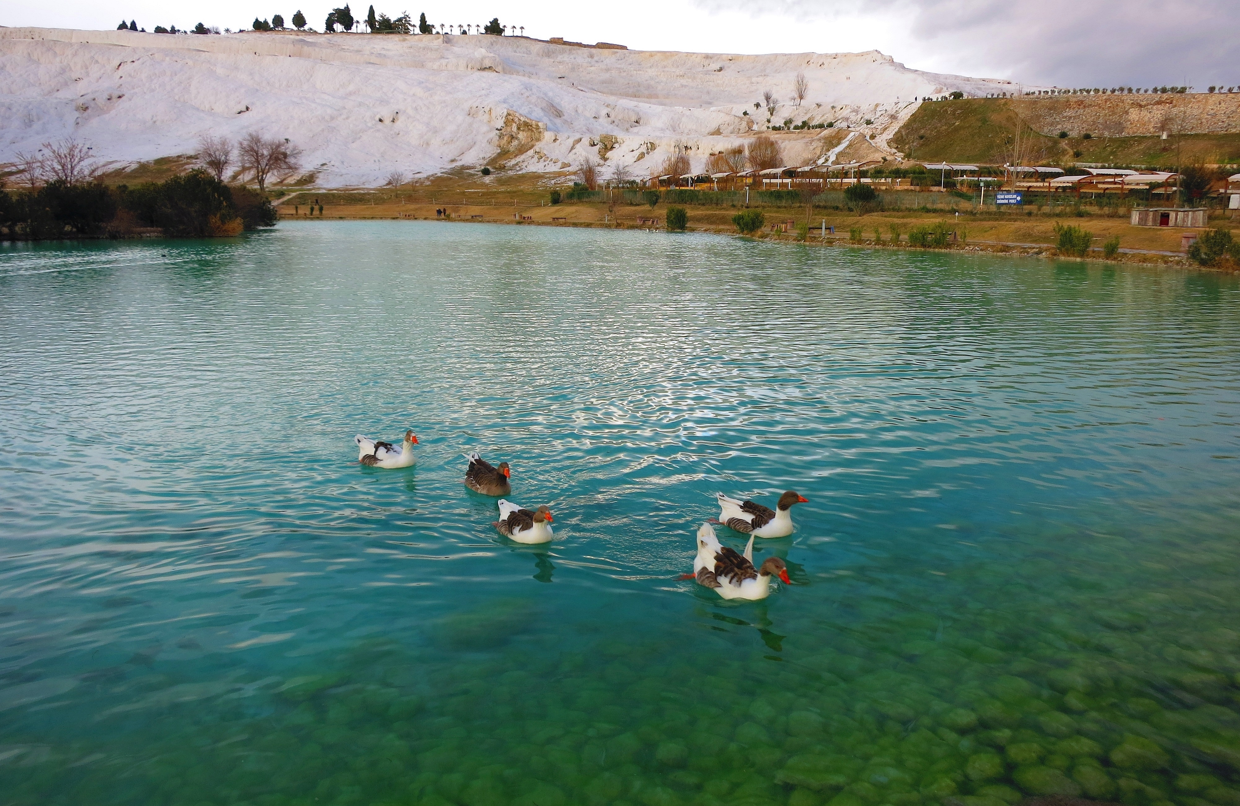 Foreground: Pamukkale pond; background: white travertine on mountains. (Denizli Province, Turkey)